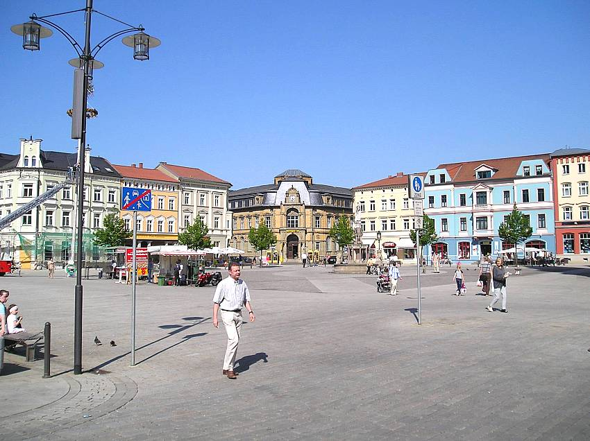 central place in Meiningen, germany